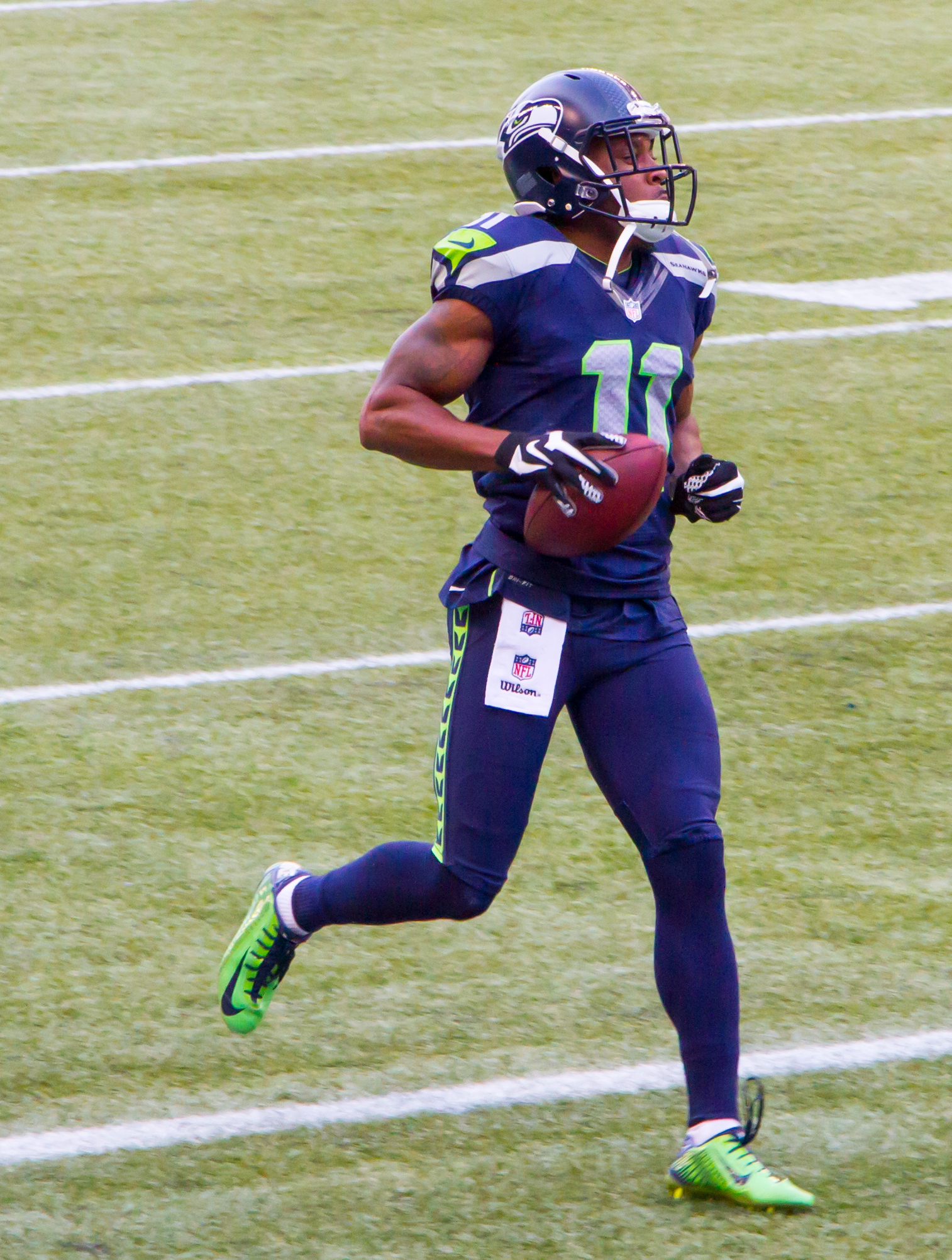 Percy Harvin in 2014 preaseason vs. Chicago Bears